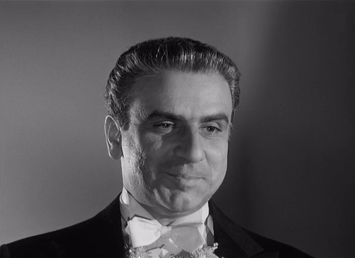 Tullio Altamura in a scene of the Italian film Madri pericolose